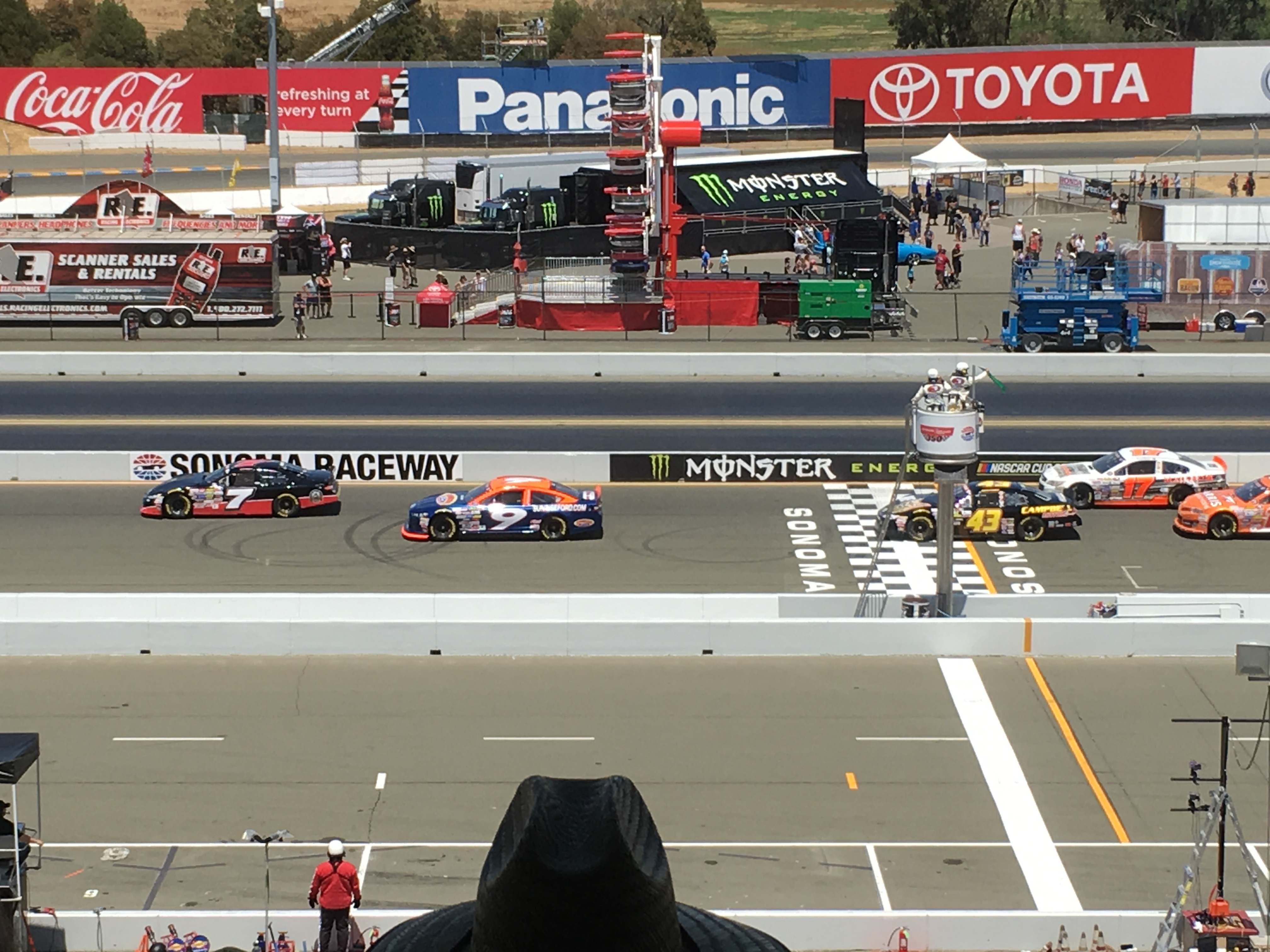 Will Rodgers (No. 7) and Michael Self (No. 9) lead the field to the green flag at the 2017 Carneros 200.